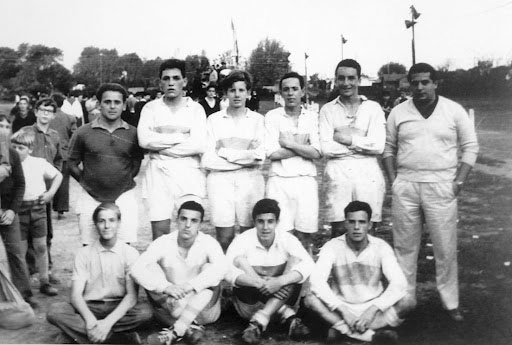 The rugby union team of Argentine Club Gimnasia y Esgrima de Buenos Aires in 1964.